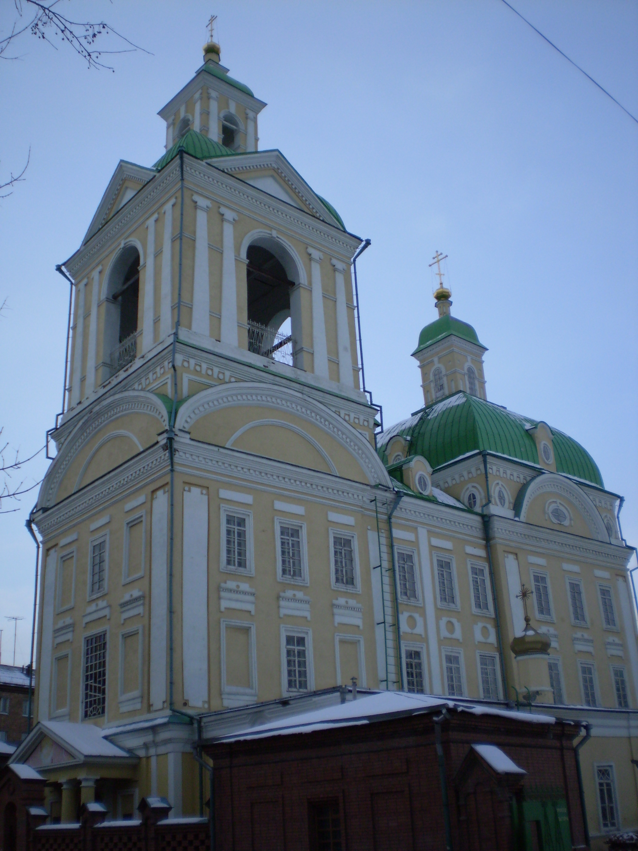 The orthodox Annunciation cathedral, Krasnoyarsk